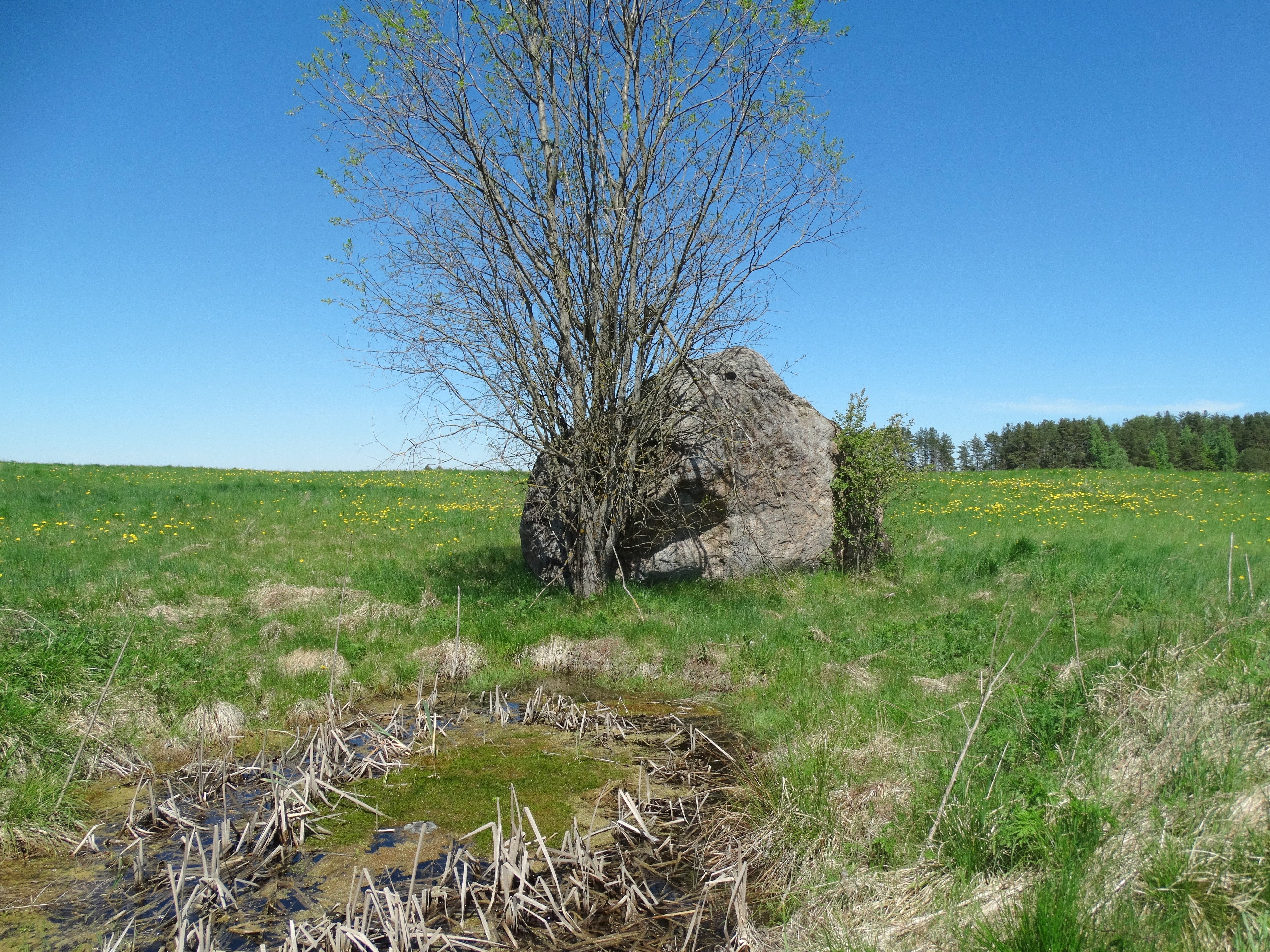 Stone in Mindučiai, Molėtai District, Lithuania